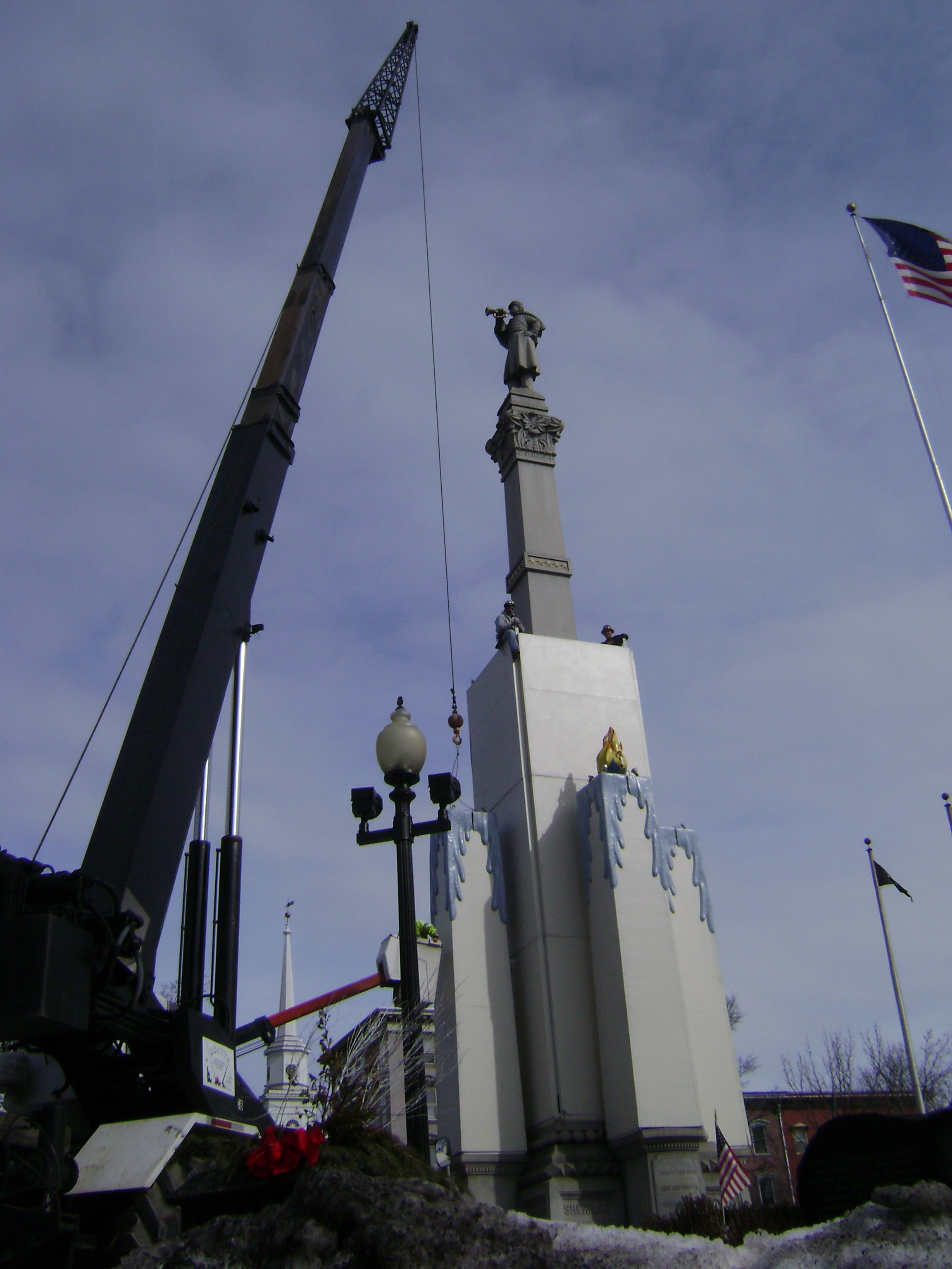 The Peace Candle of Easton, Pennsylvania, in the middle of being disassembled.